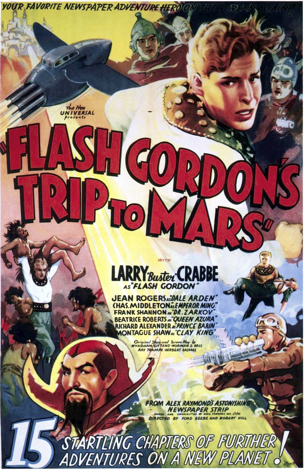 Poster from the 1938 serial Flash Gordon's Trip to Mars. The item has no copyright markings on it as can be seen in the links above. At lower left is Country of origin USA. At lower right is the logo for the Morgan Litho Company, who proudced the poster.